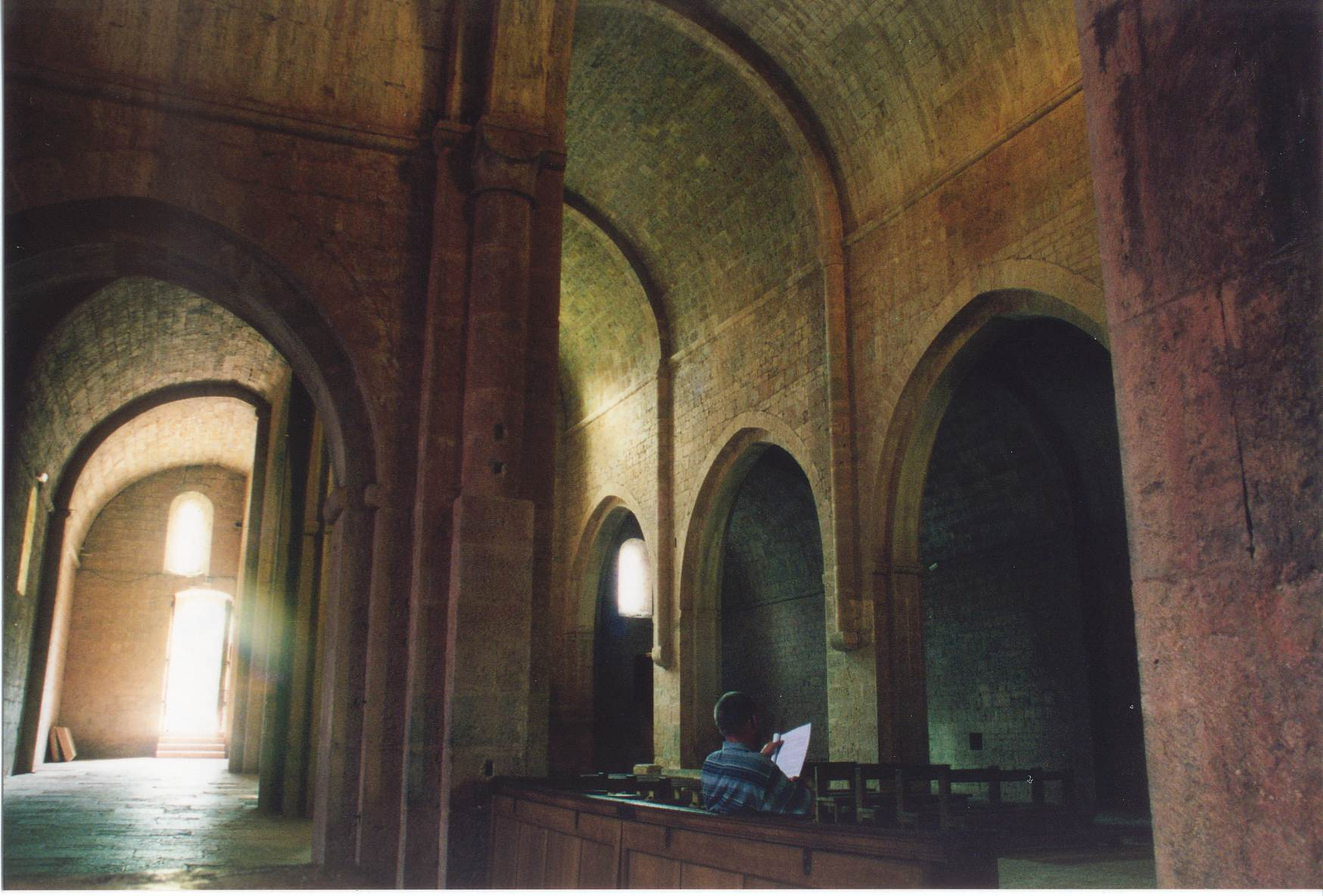 Le Thoronet